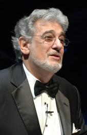 Plácido Domingo speaks at the National Endowment for the Arts Opera Honors on Friday, October 31, 2008 at the Harman Center for the Arts in Washington, DC